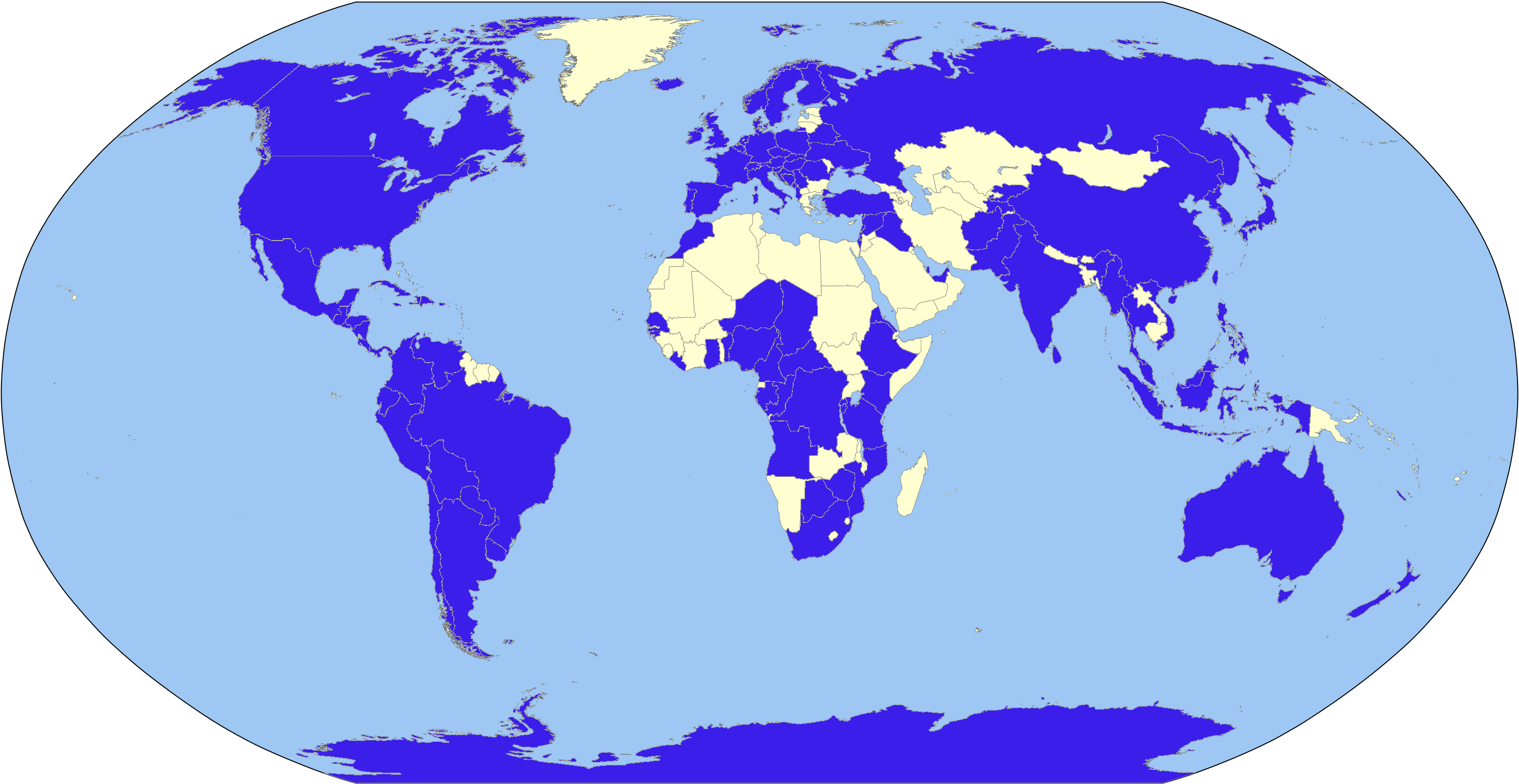 Map indicating the presence of the Pilgrim Mother Campaign in the world.